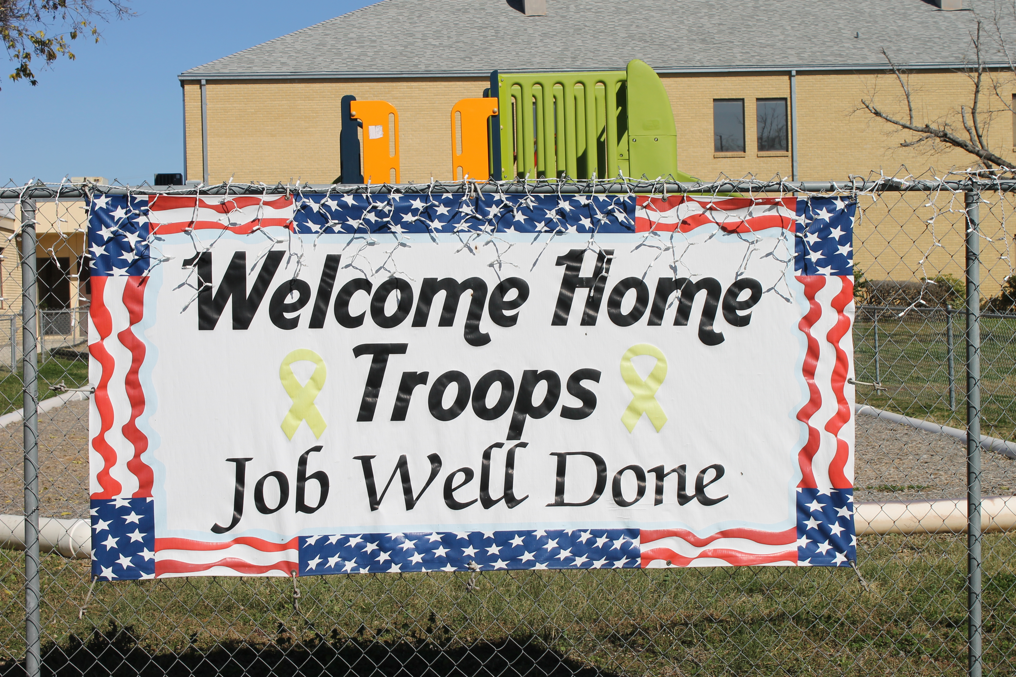 Welcome Home Troops sign in Devine, TX